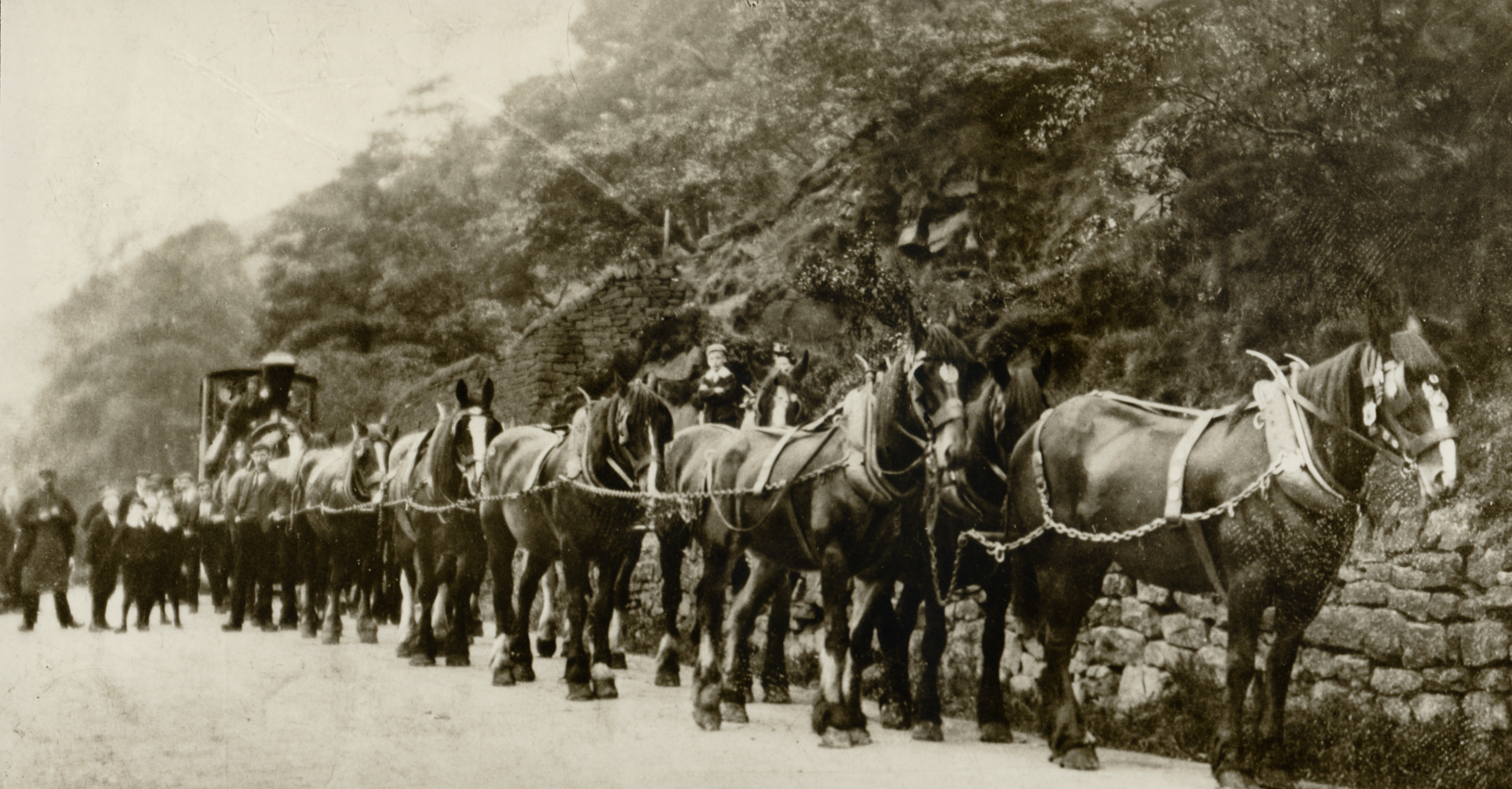 Steam locomotive being dragged up Heptonstall Road to the Blake Dean Railway at Dawson City